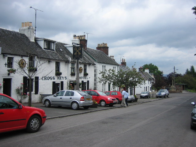 Cross Keys Hotel. A fine country pub since 1703 with simple fare and great ale.